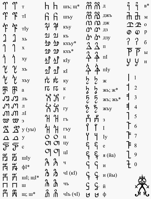 CircassianAlphabet